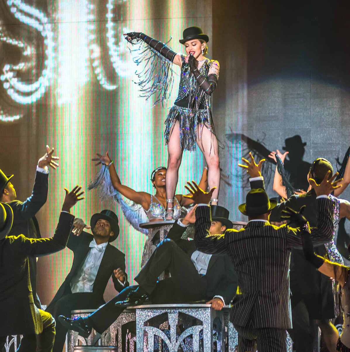 Rebel Heart Tour